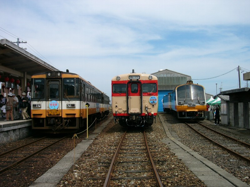 From left to right, Revival Notoji Relay train, Revival Notoji express train, Notokoiji express train. The photo was taken at Suzu station (which was already abondoned) of Noto railway. Suzu city Ishikawa prefecture Japan.